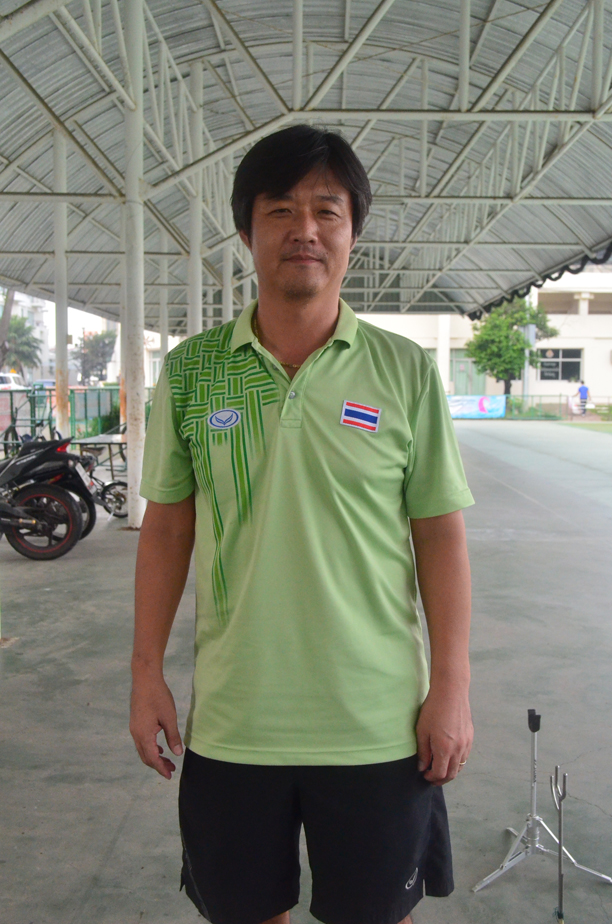 Kim Seon Bin